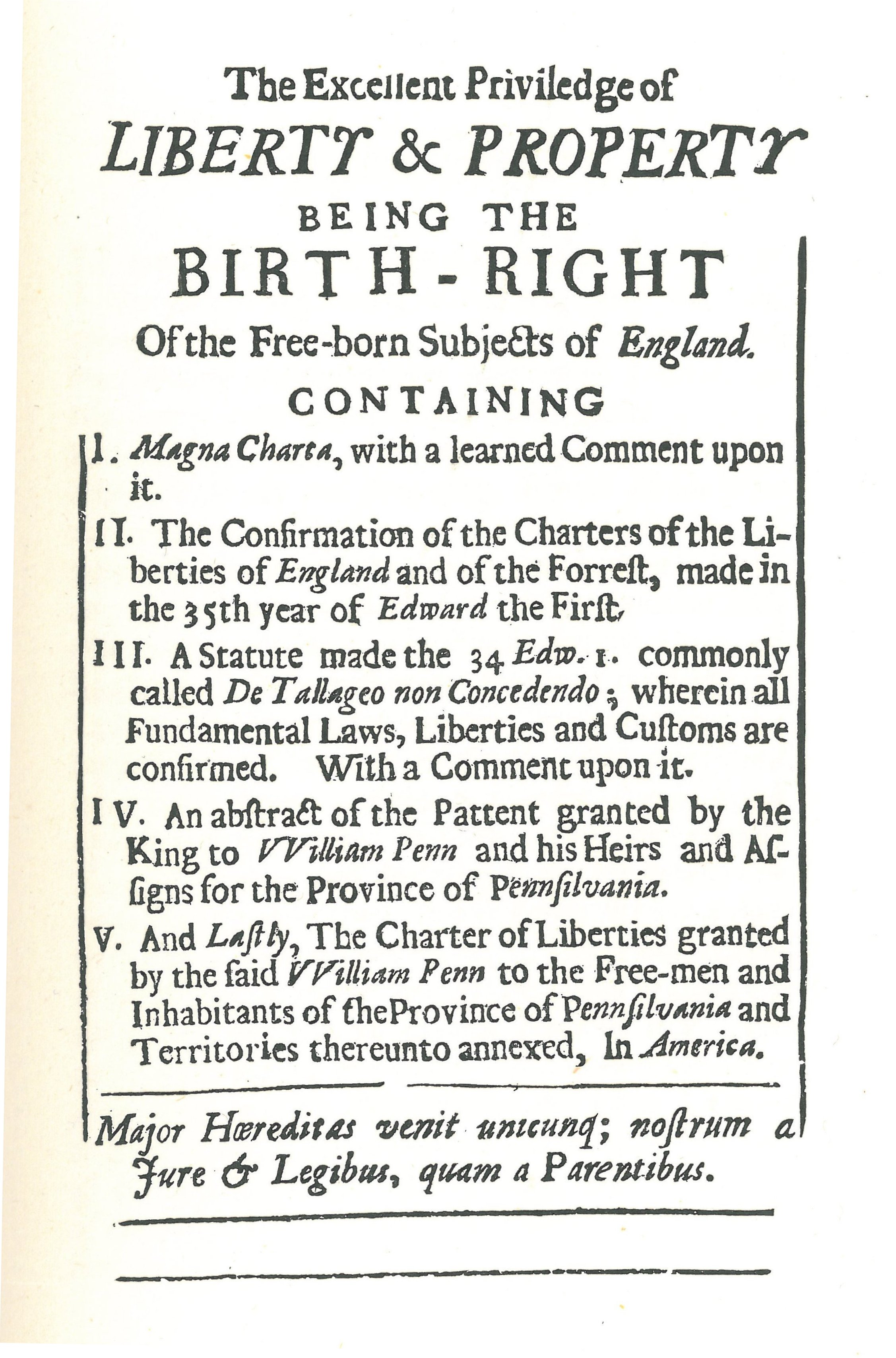 Title page of William Penn (1687) The Excellent Priviledge of Liberty and Property being the Birth-right of the Free-born Subjects of England. Containing I. Magna Charta, with a Learned Comment upon it. II. The Confirmation of the Charters of the Liberties of England and of the Forest, made in the 35th Year of Edward the First. III. A Statute made the 34 Edw. I. commonly called De tallageo non concedendo; wherein all Fundamental Laws, Liberties and Customs are Confirmed. With a Comment upon it. IV. An Abstract of the Pattent Granted by the King to VVilliam Penn and his Heirs and Assigns for the Province of Pennsylvania. V. And Lastly, the Charter of Liberties Granted by the said VVilliam Penn to the Free-men and Inhabitants of the Province of Pennsylvania and Territories thereunto Annexed, in America, Philadelphia, Penn.: Printed by William Bradford OCLC: 64617420. This version of the book was reprinted in William Penn (1897) The Excellent Priviledge of Liberty and Property: Being a Reprint and Fac-simile of the First American Edition of Magna Charta Printed in 1687 under the Direction of William Penn by William Bradford, Philadelphia, Penn.: Printed for The Philobiblon Club OCLC: 148042431.